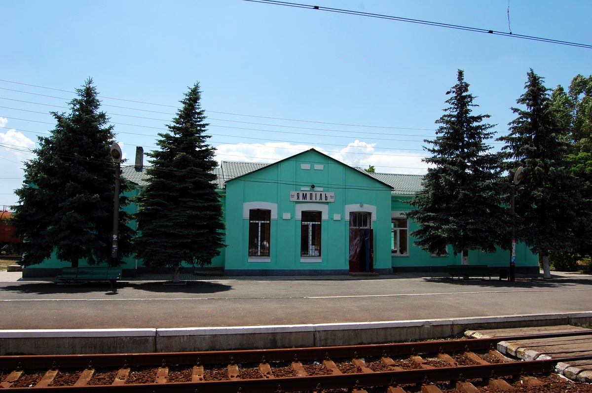 Railway station Yampil', Donetcka railway